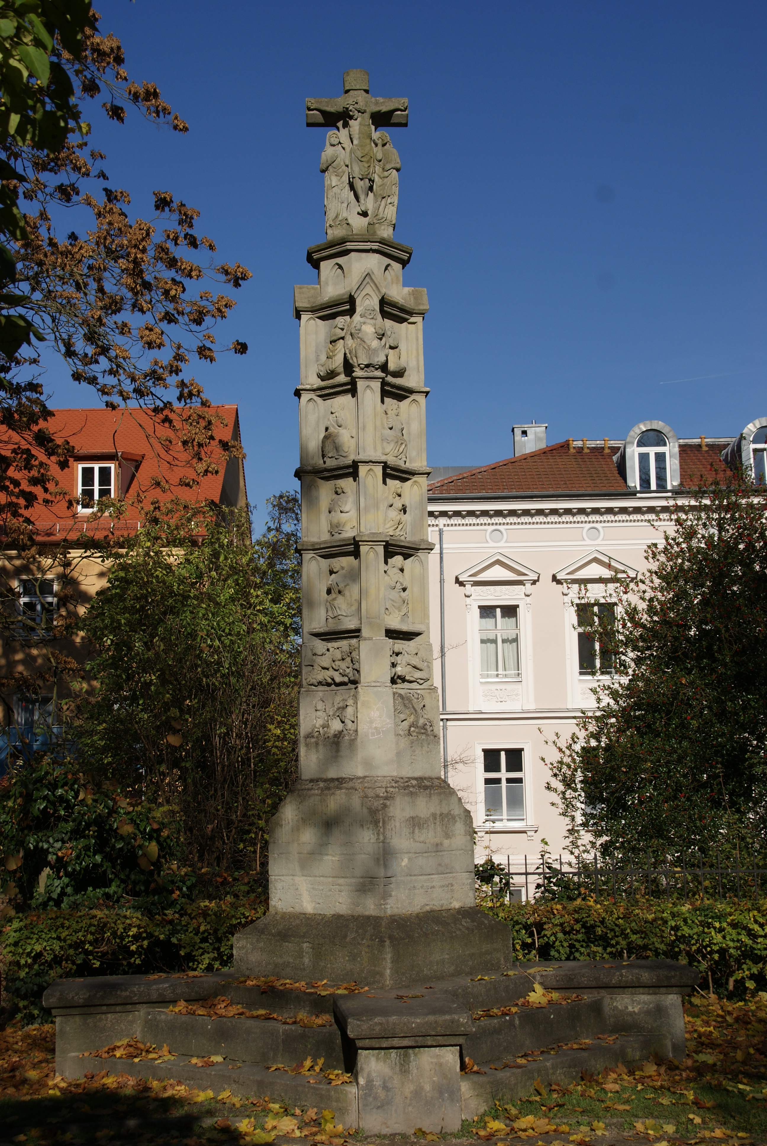 "Predigtsäule", probably a preaching, market or court cross of the early 14th century.